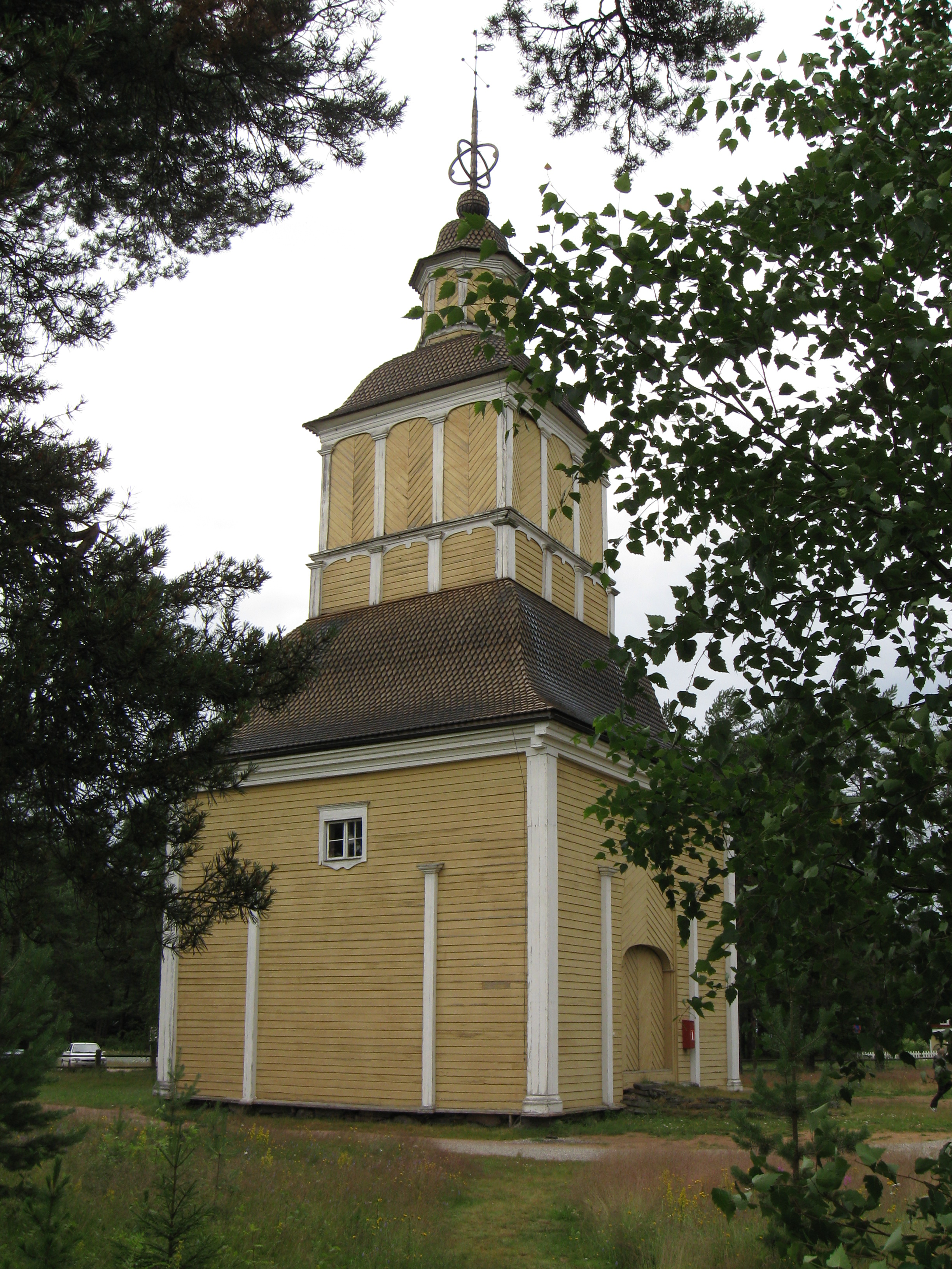 The belltower of the old church of Paltaniemi in Kajaani, Finland.